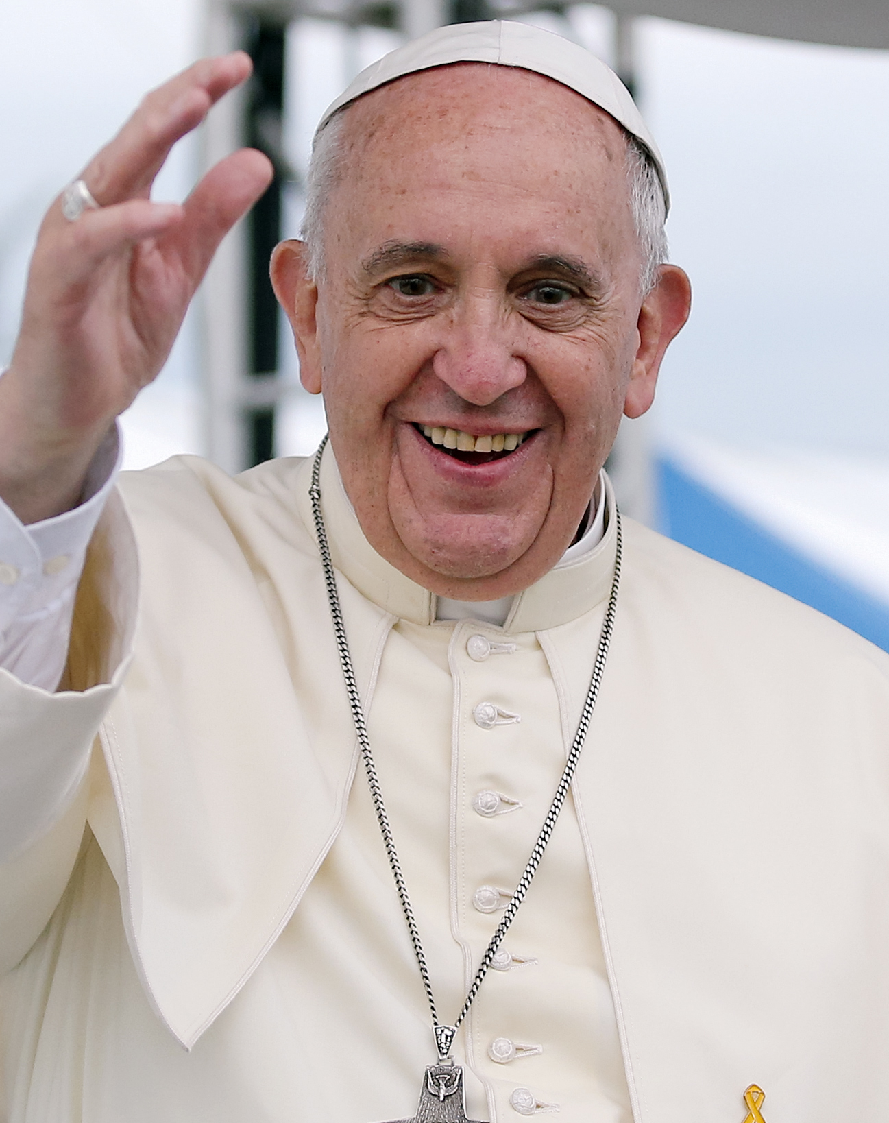 2014 Pastoral Visit of Pope Francis to Korea Closing Mass for Asian Youth Day August 17, 2014 Haemi Castle, Seosan-si, Chungcheongnam-do